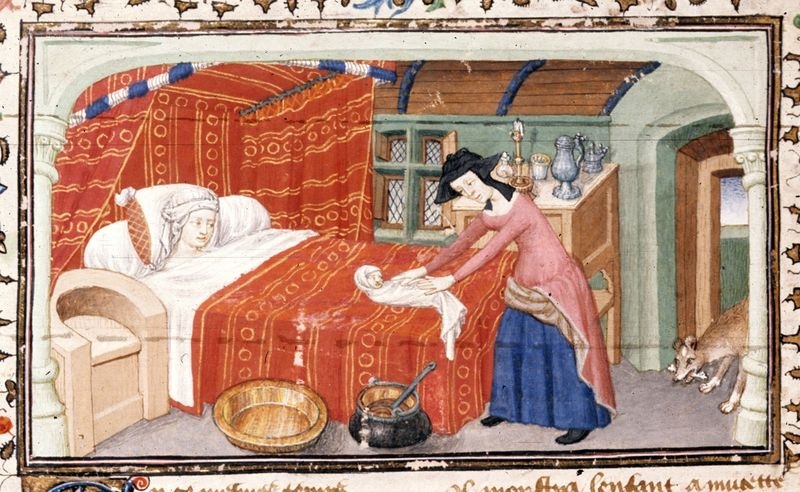 BL birth of a monstrous child, La vraye hystoire du bon roy Alixandre, Royal 20 B. xx, f. 86v.